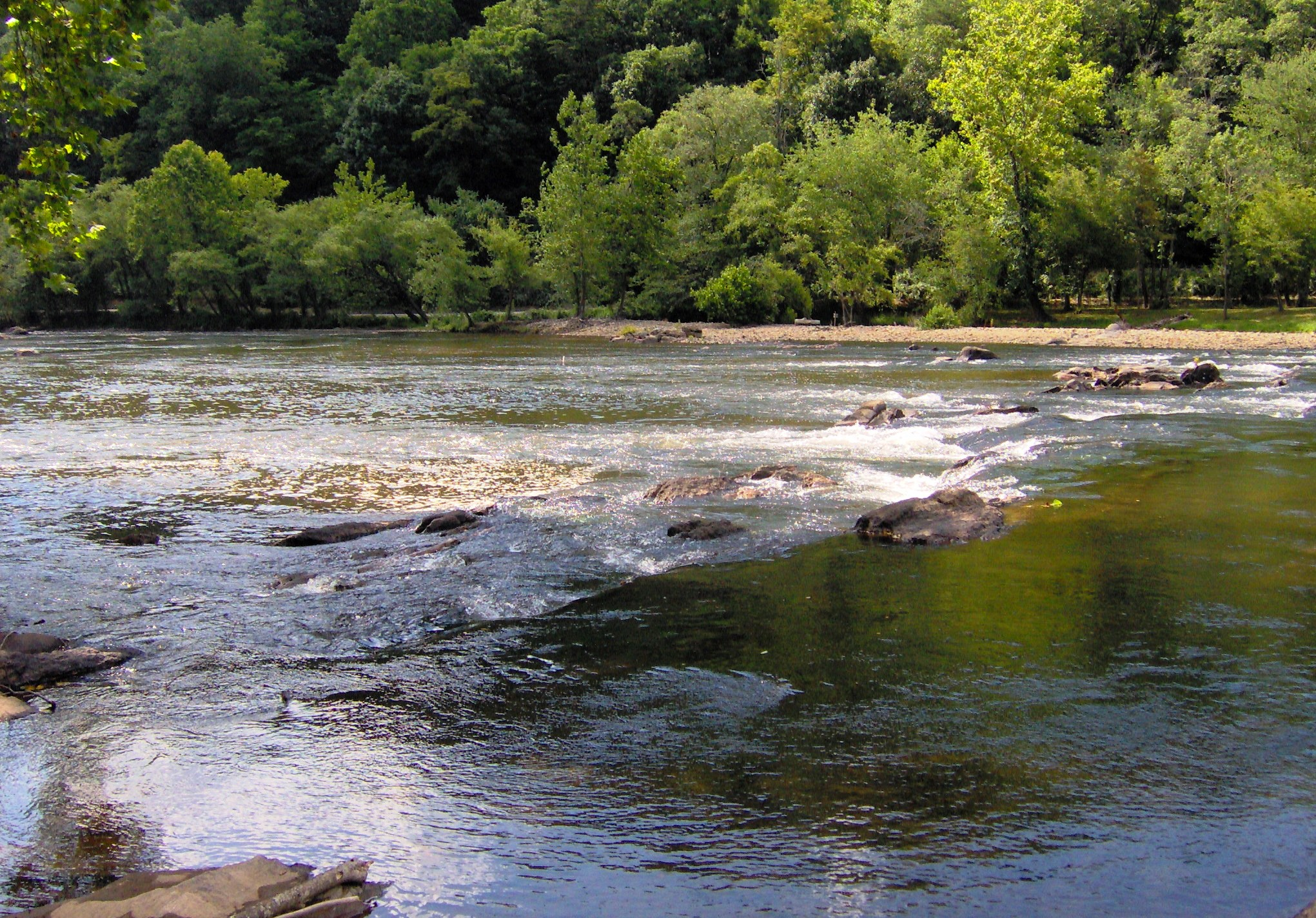 The Tuckasegee River at Bryson City, North Carolina, in the southeastern United States. This view of the river is just immediately upstream from the river's confluence with Deep Creek.